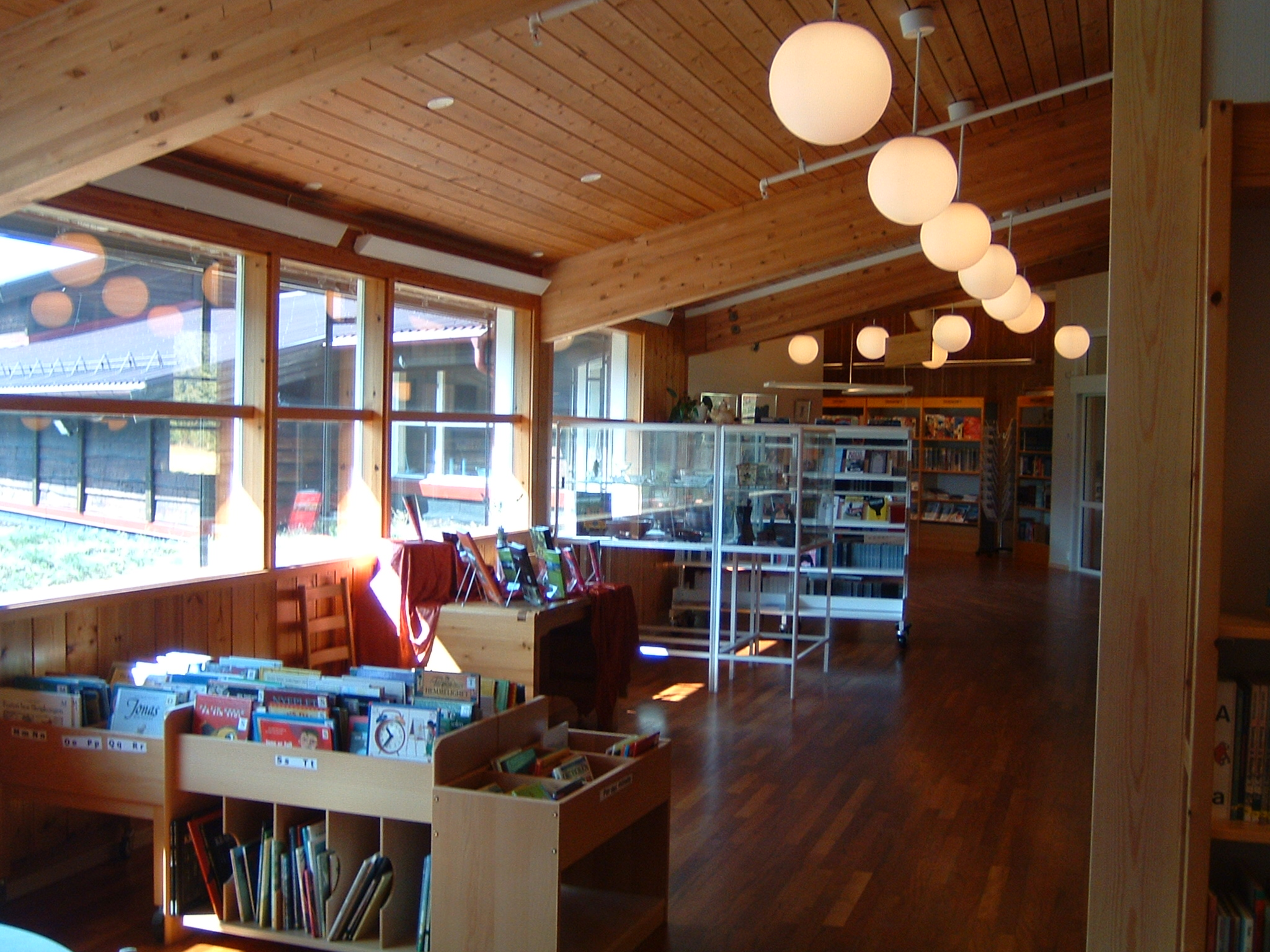 A picture of Forsand Library